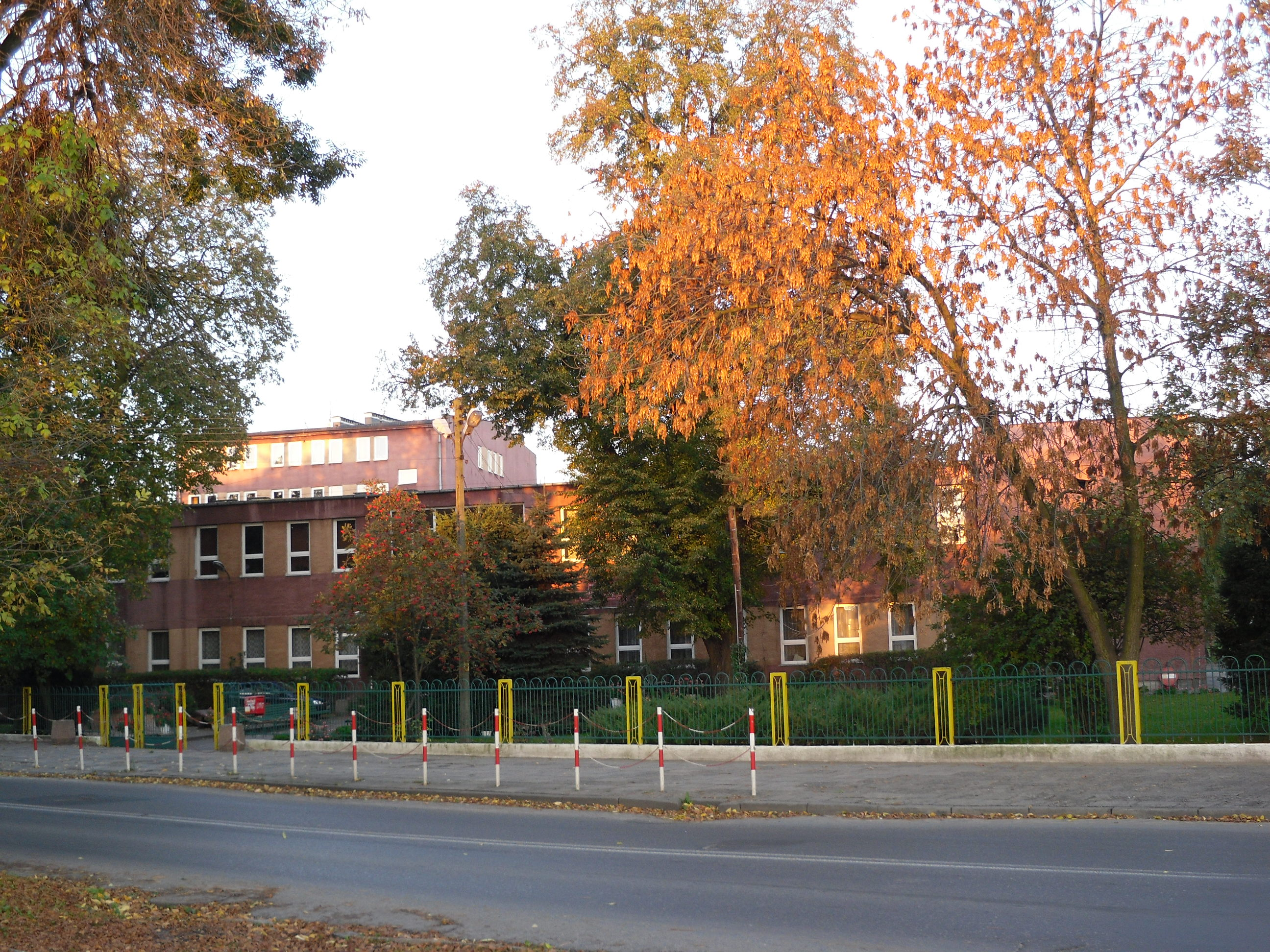 Sochaczew - Fryderyk Chopin High School